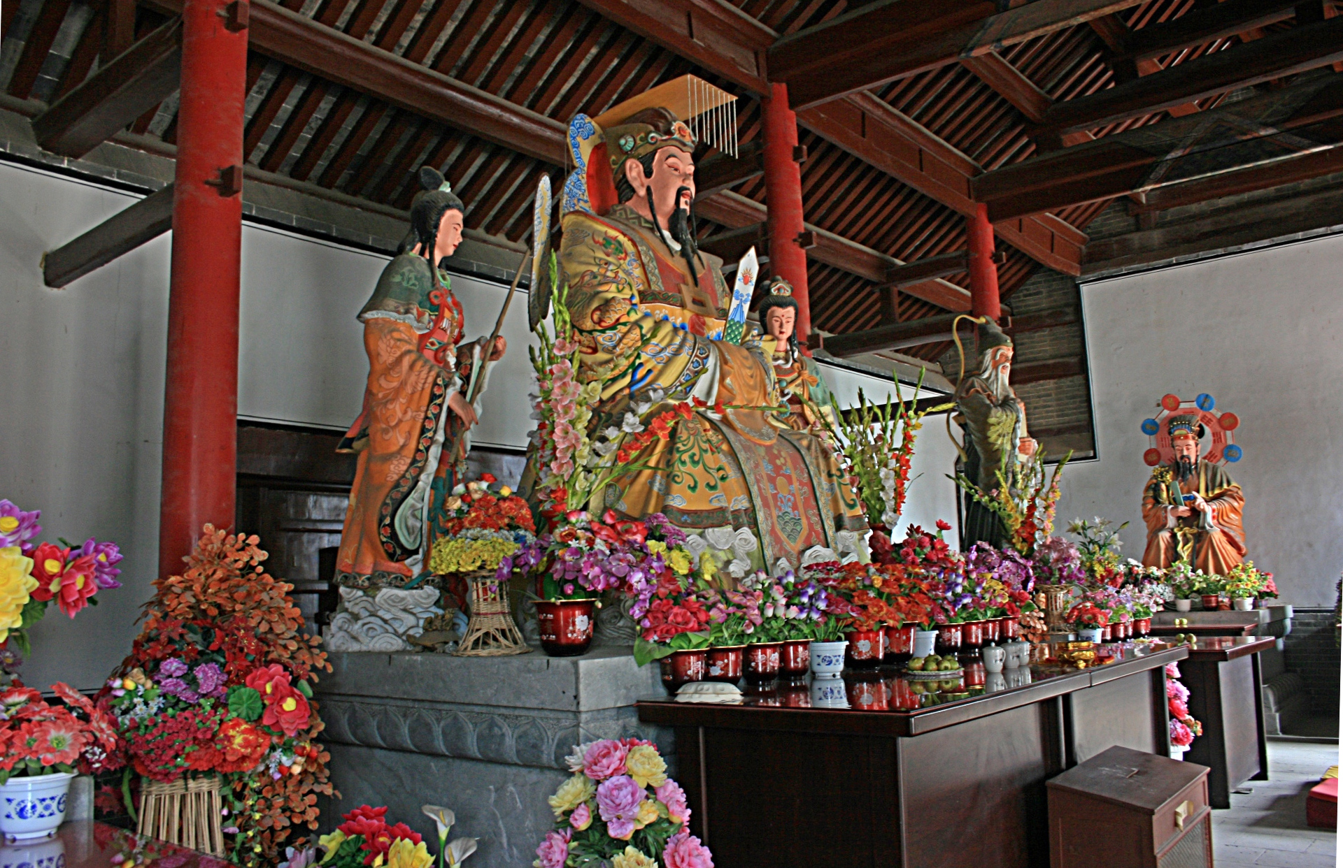 Photograph of the statue of the God of the Four Seasons in the Huayang Palace at the foot of Hua Hill in Jinan, Shandong, China.